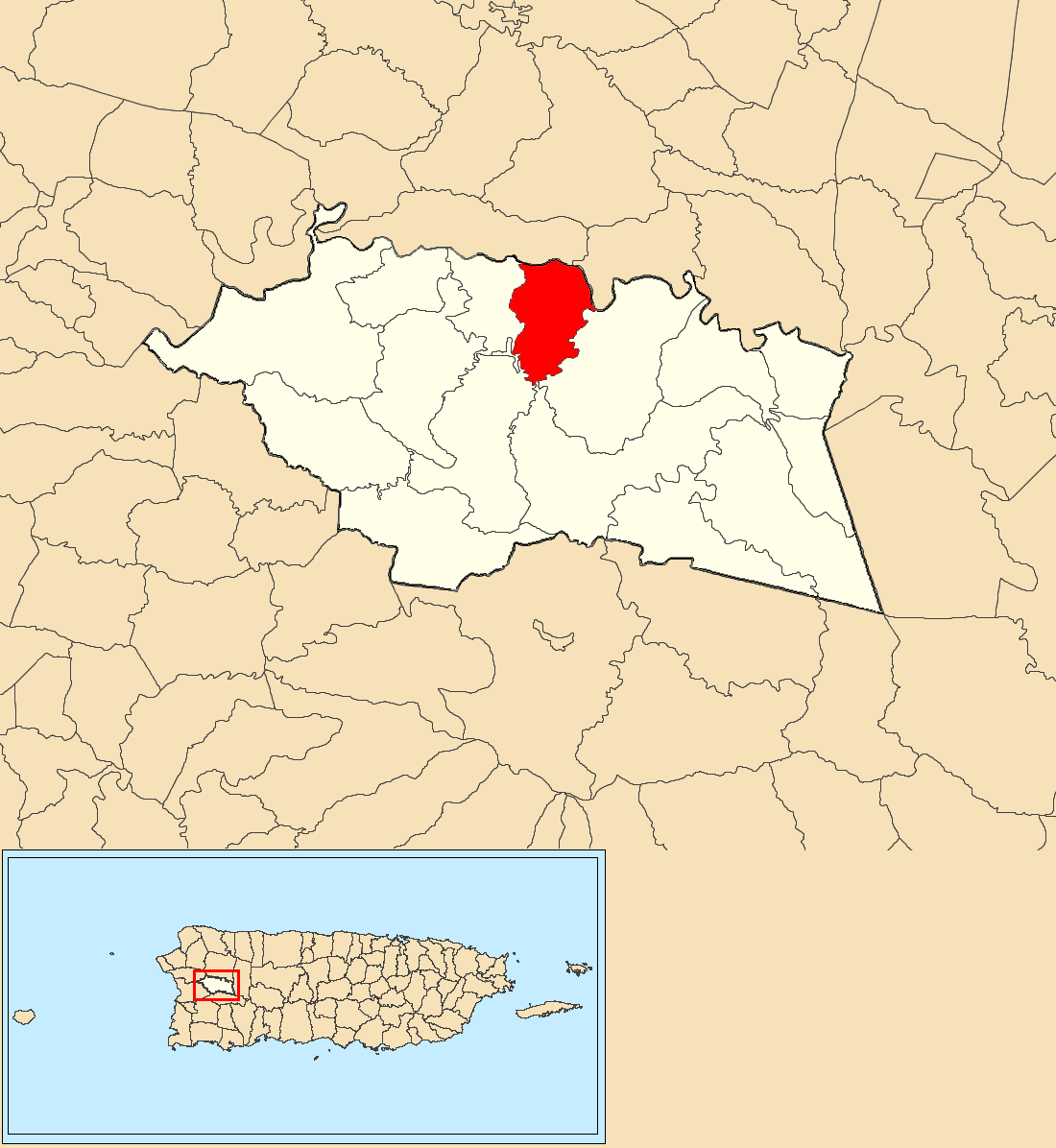 Maravilla Este, Las Marías, Puerto Rico locator map